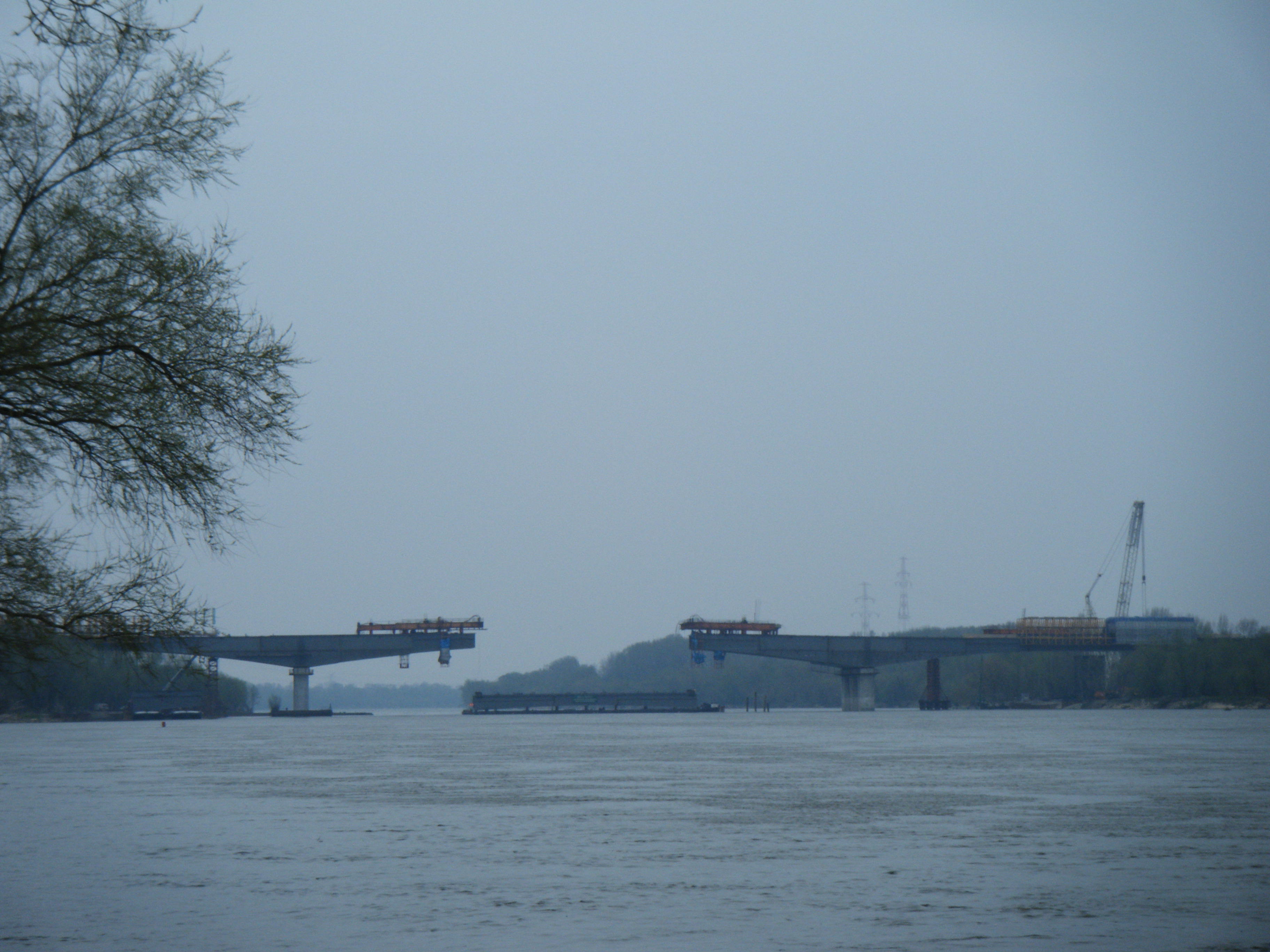 The North Bridge in Warsaw (under construction)